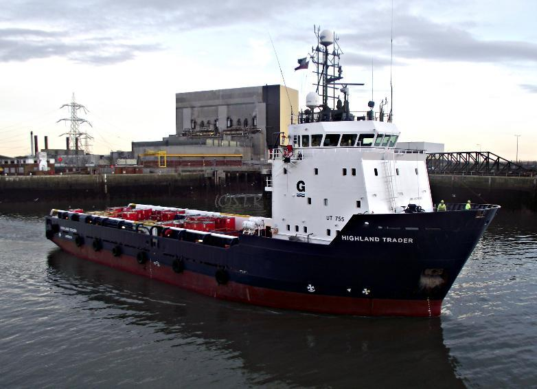 Heysham